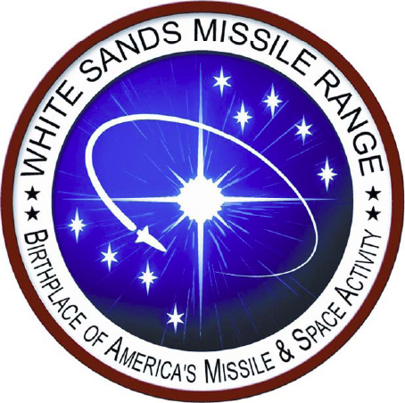 White Sands Missile Range logo.